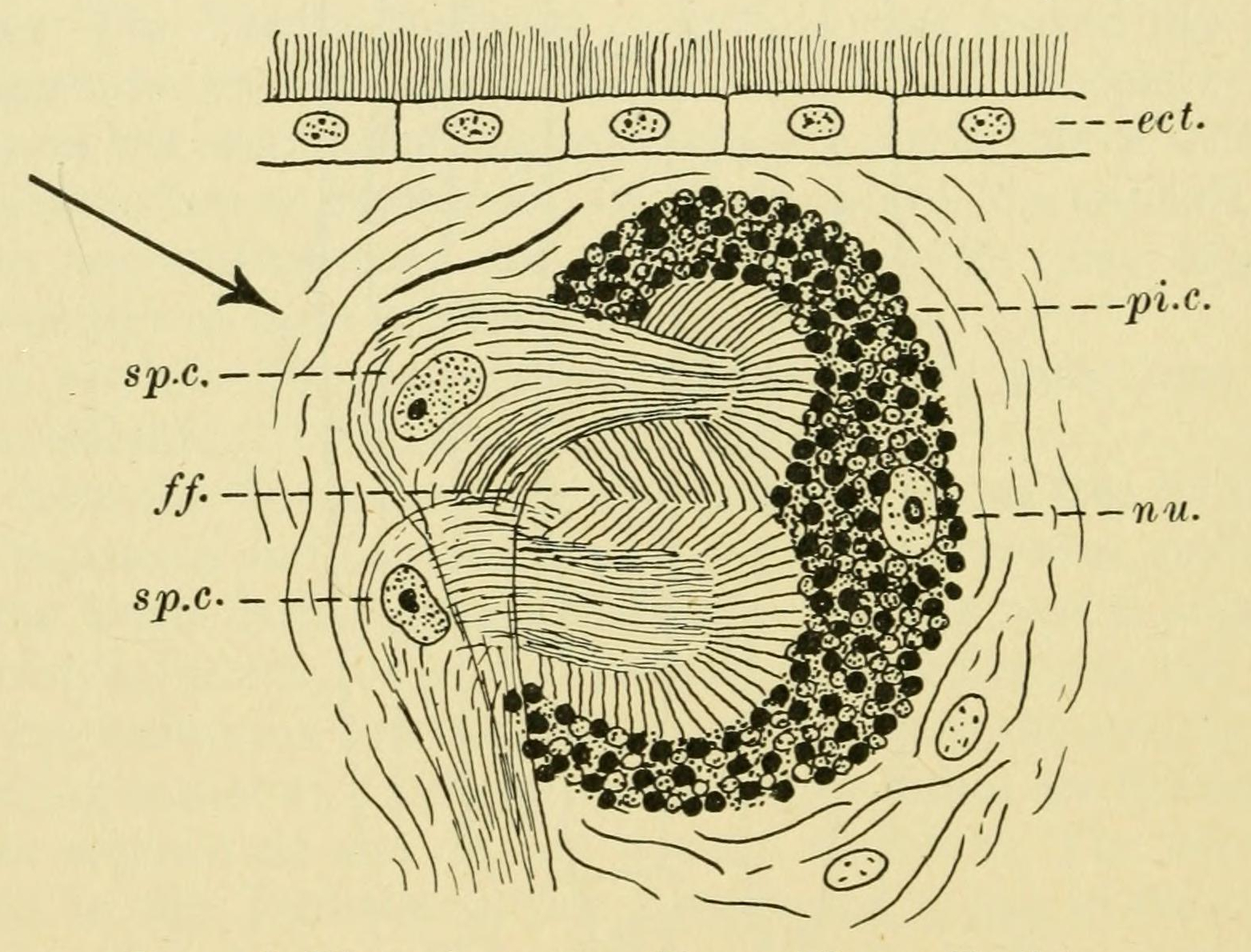 Eye of Planara torva. From Hesse Doflein. ect. ectoderm; nu. nucleus of pigment cell; pi.c. cup-shaped pigment cell forming retina; sp.c. special light-sensory nerve cells with fibrillae (ff.) extending to retina. Arrow indicates line of vision.